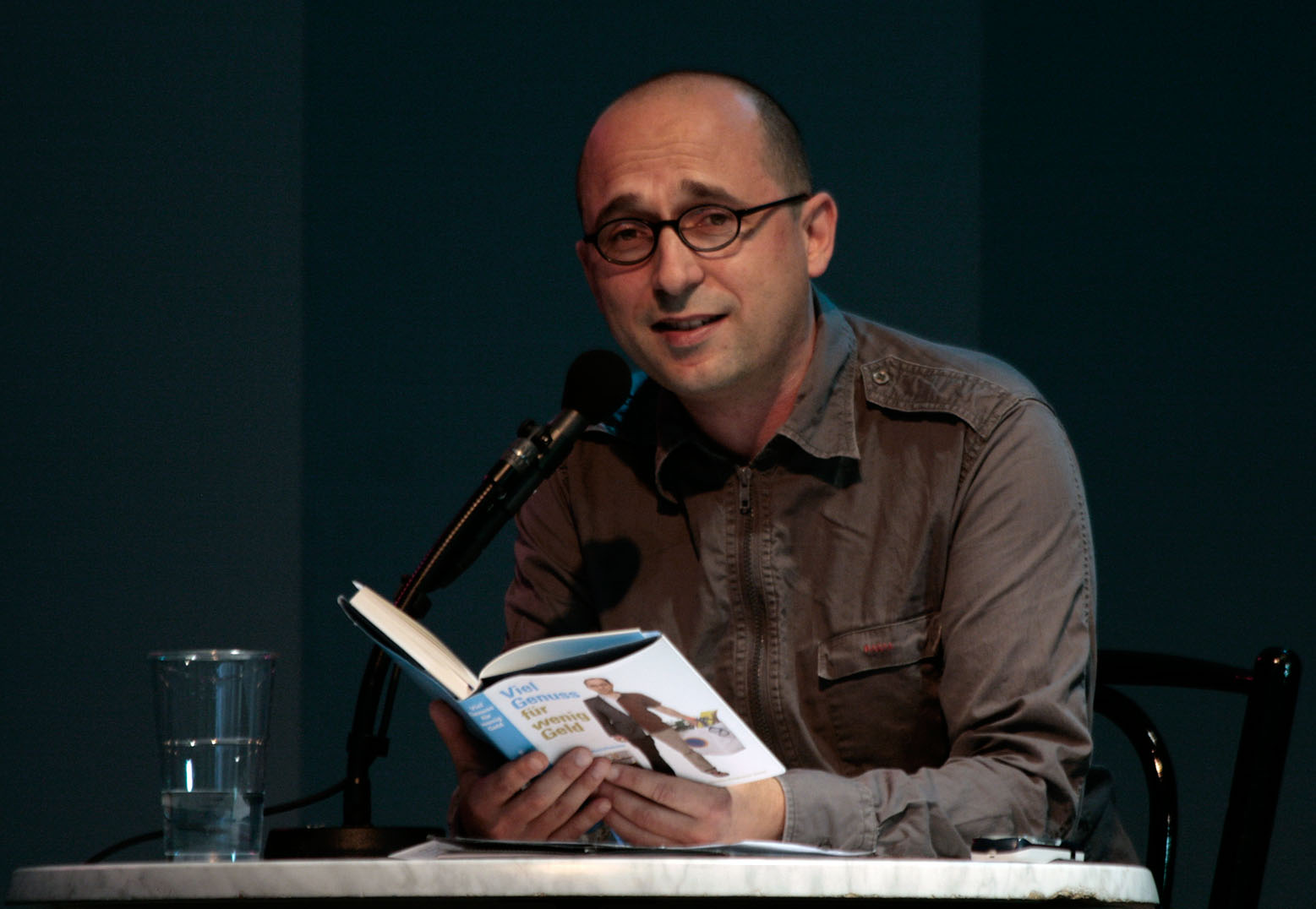 Writer Martin Amanshauser reading from 'Viel Genuss für wenig Geld' (literary evening "Rund um die Burg" 2009 near the Burgtheater in Vienna).